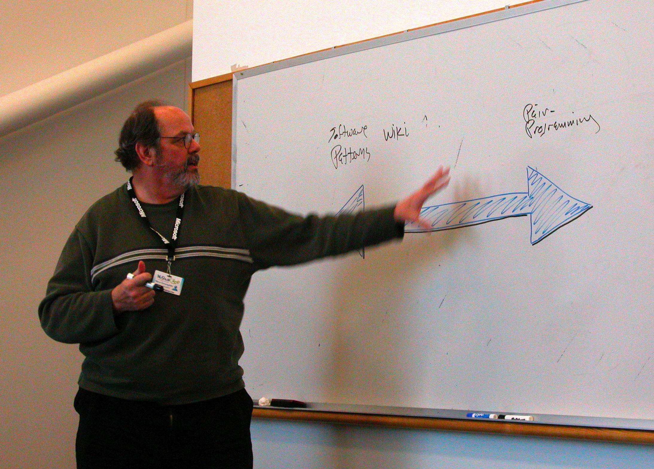 Ward Cunningham, inventor of wiki software, giving a presentation